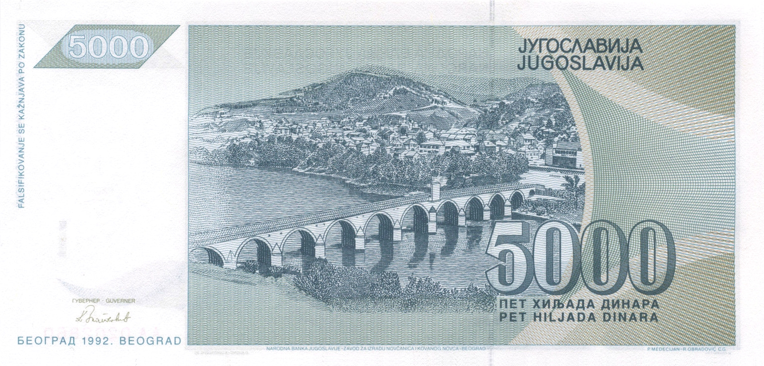 5000 Yugoslav dinars (1992)